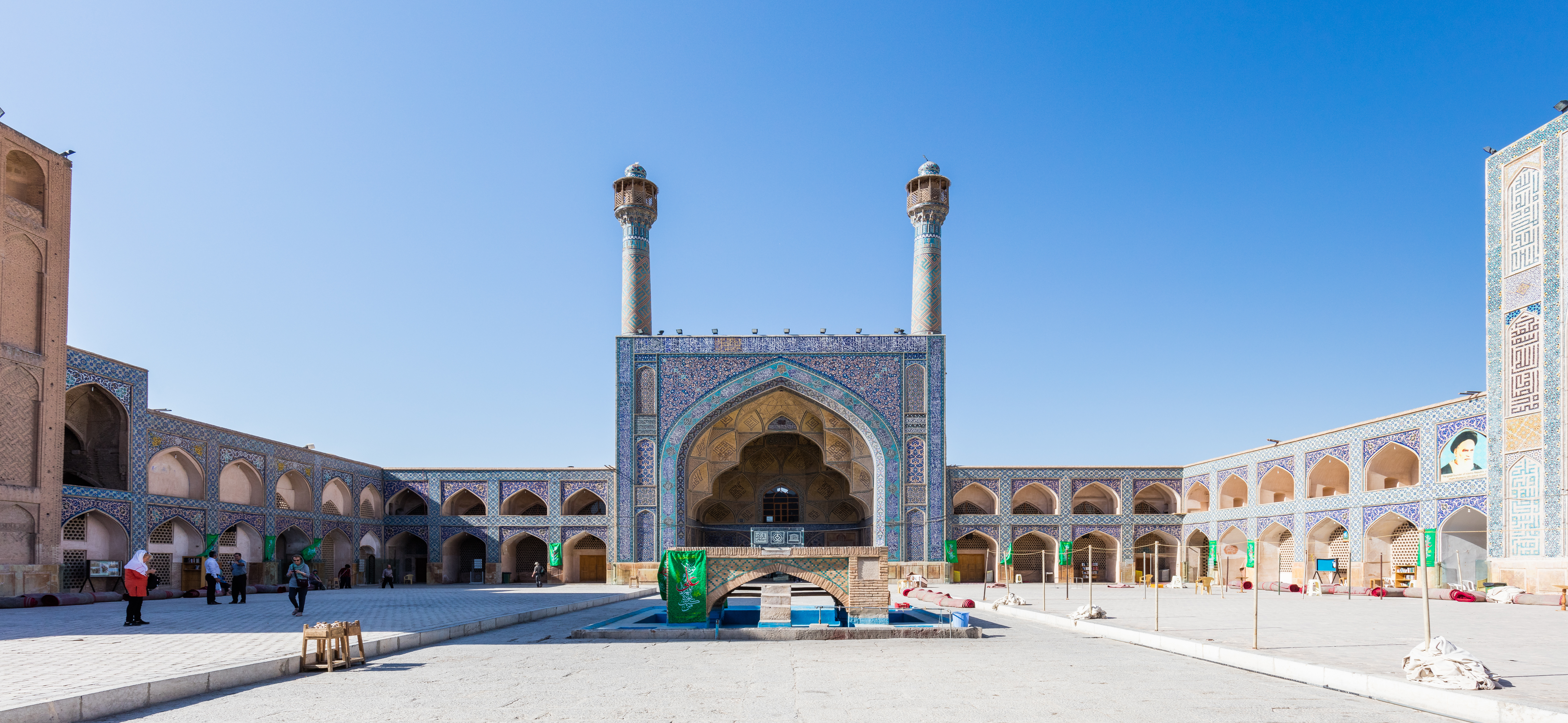 Jameh Mosque of Isfahan, Isfahan, Iran